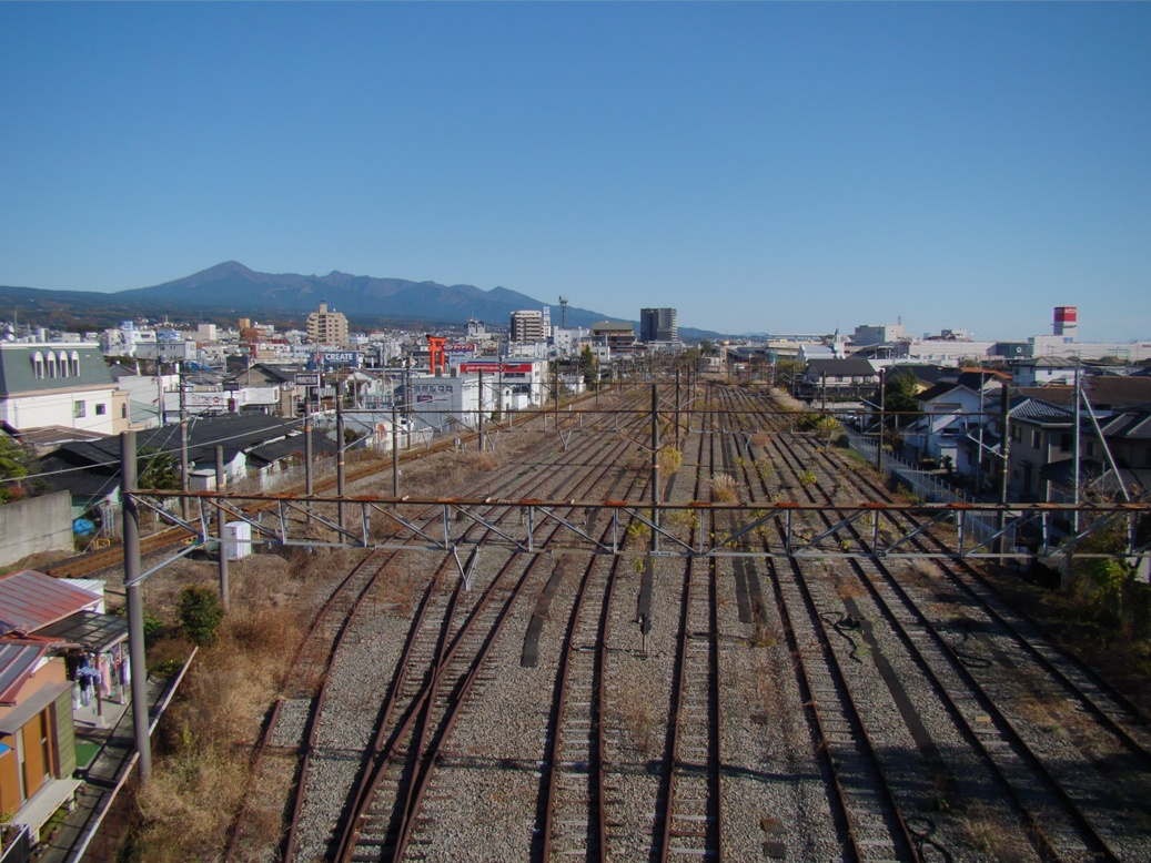 Fujinomiya station storage track Shizuoka Japan